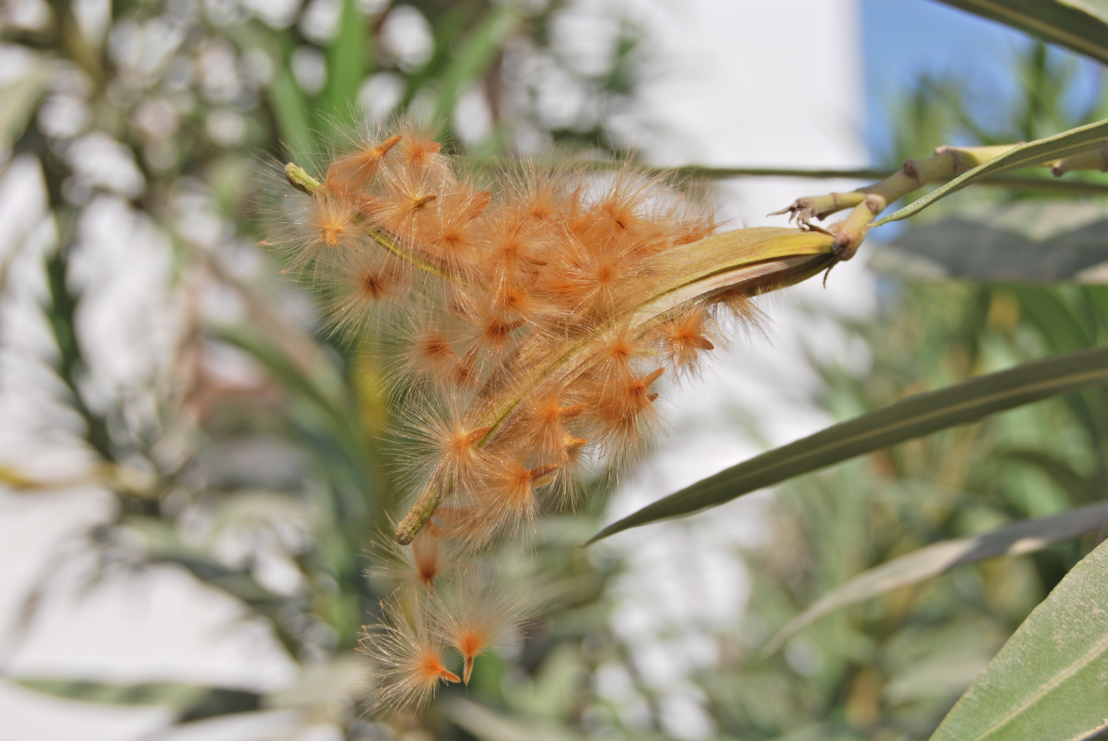 An Oleander capsule splits open spreading seeds